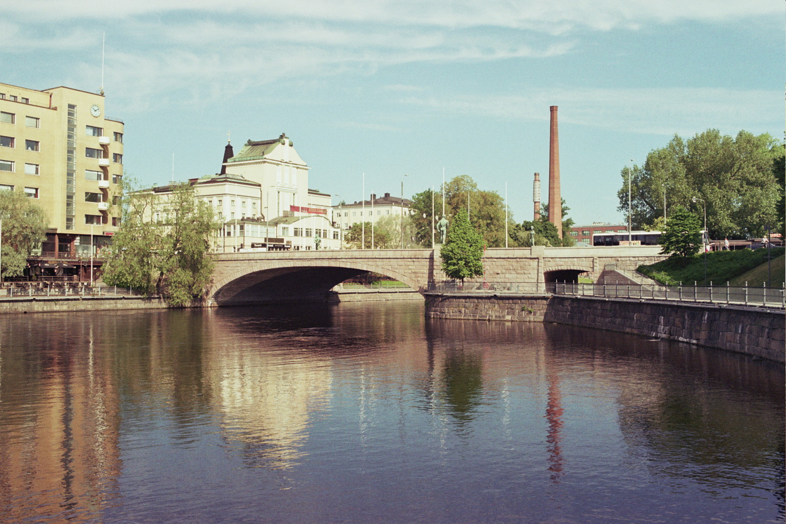 Hämeensilta, a bridge across the Tammerkoski rapids in central Tampere, Finland.